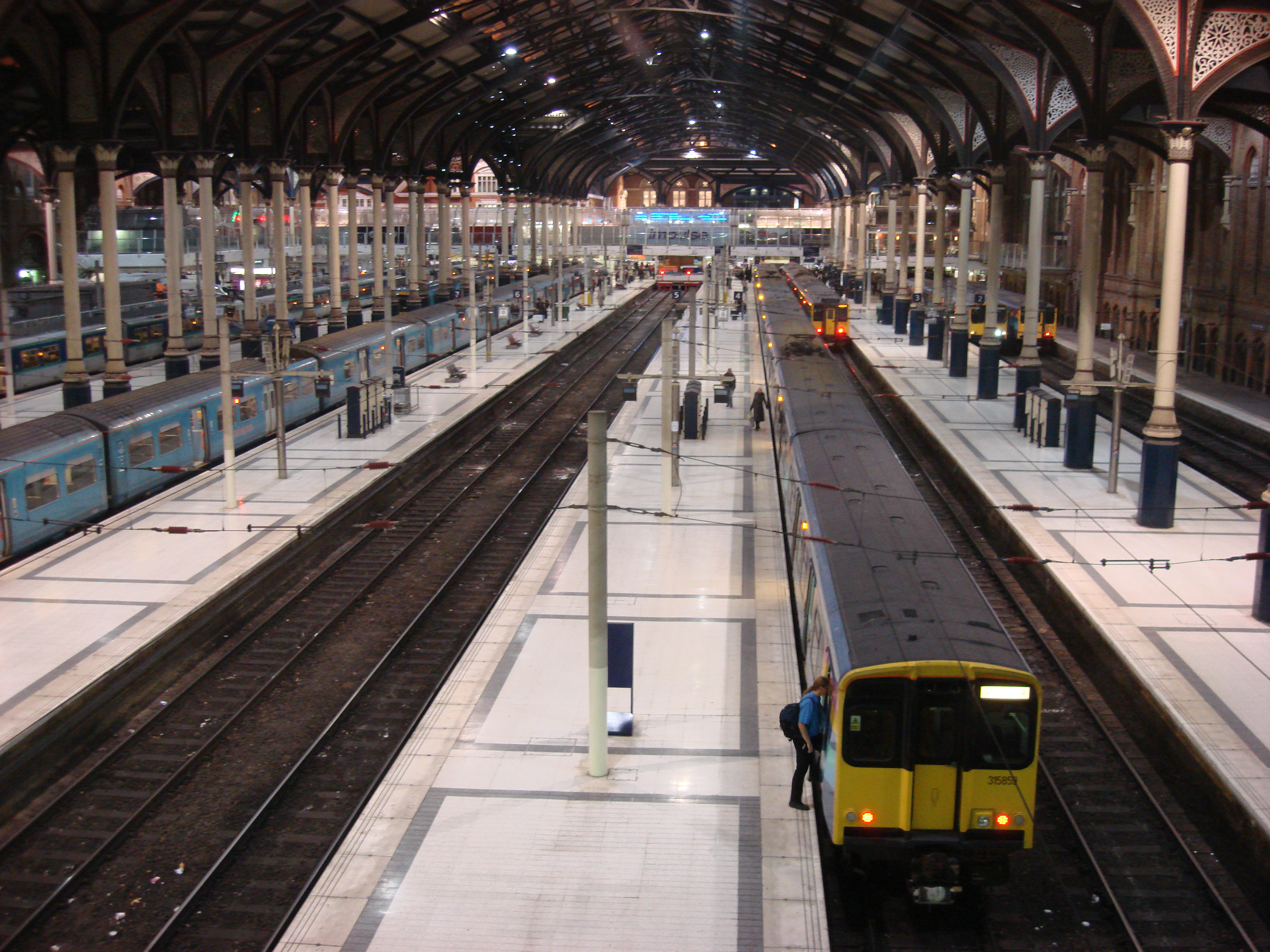 315859 at Liverpool Street